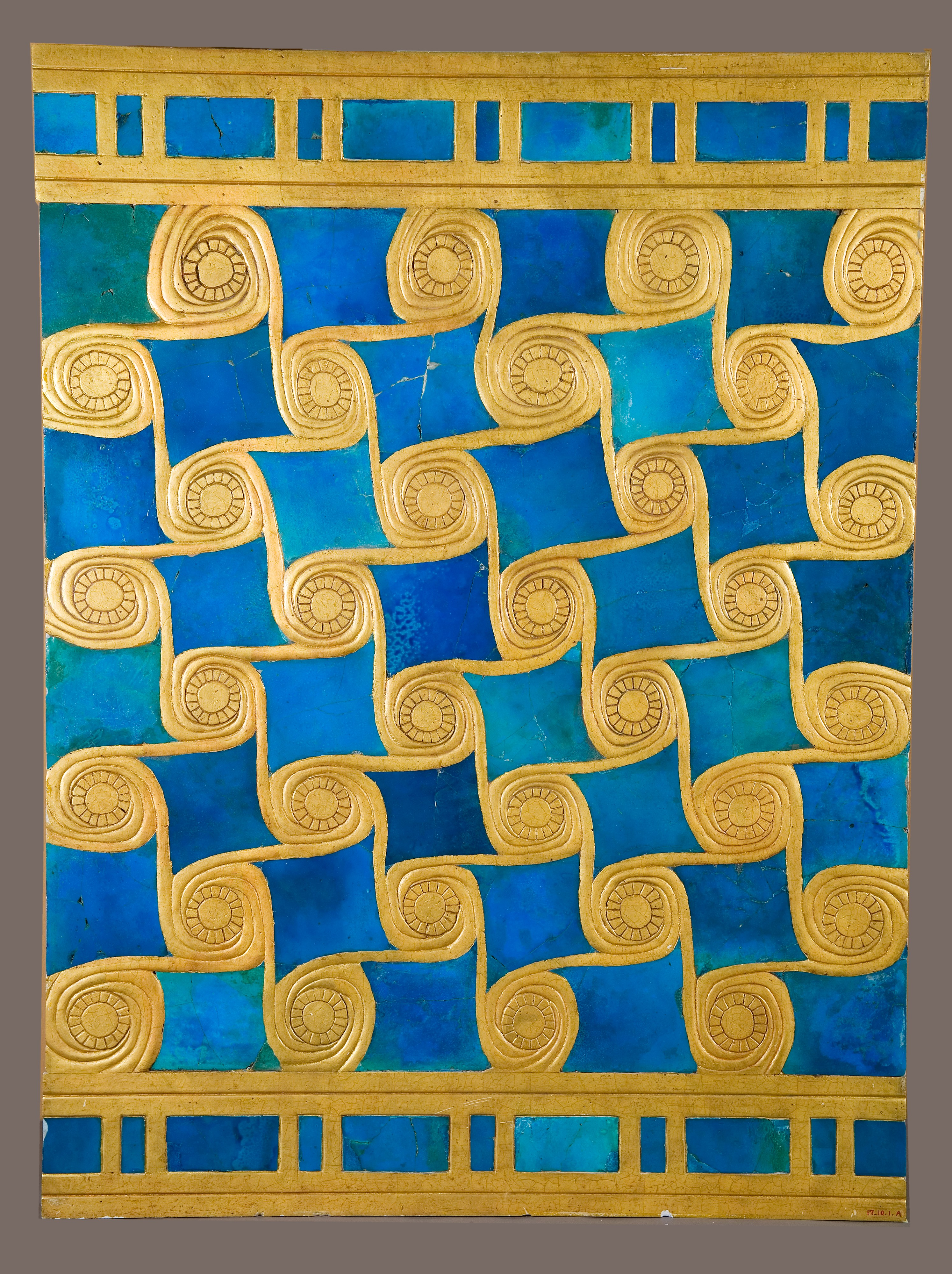 Tile, wall panel, reconstructed